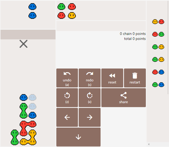 Puyopuyo simulator for iOS, Android and web. Built with react-native(-web).